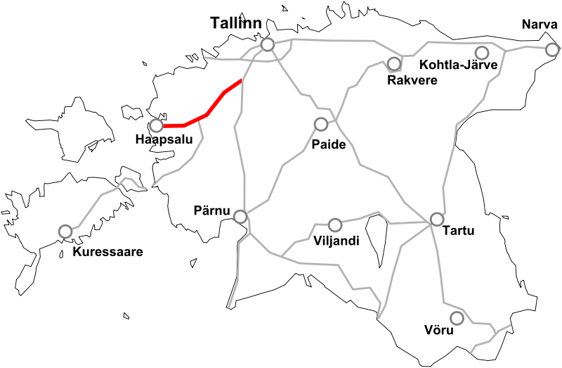 Map of Estonian national road 9, white background. Bigger cities marked.